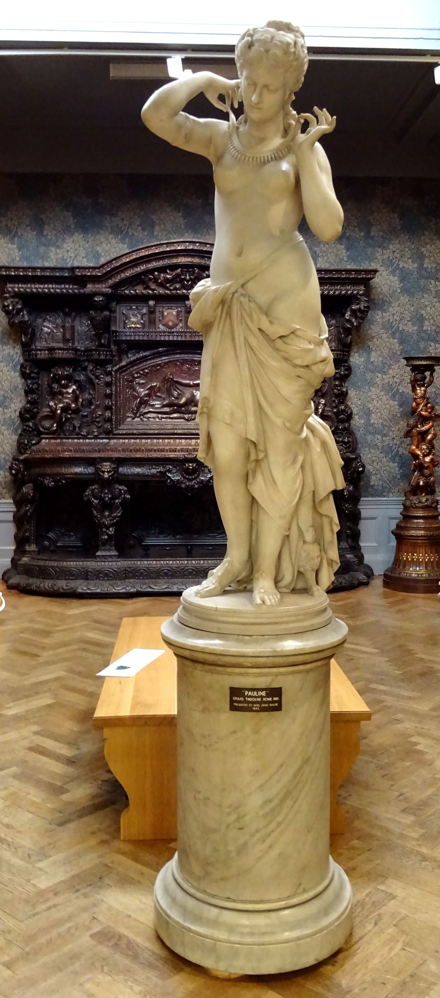 "Pauline" sculpture by Giulio Tadolini, Rome, 1881. Williamson Art Gallery, Birkenhead, Merseyside, England.